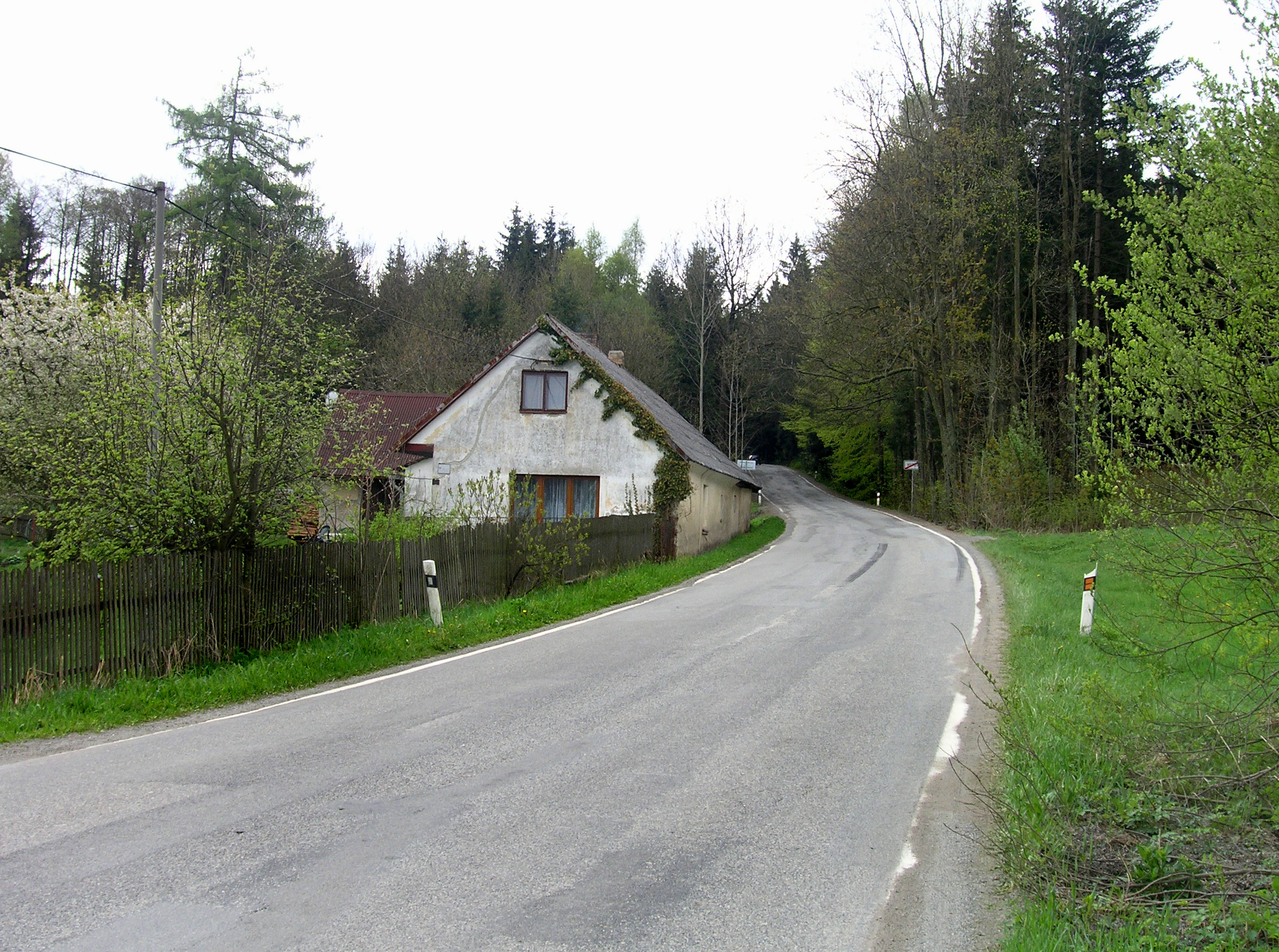 Rytov, part of Černovice village, Czech Republic